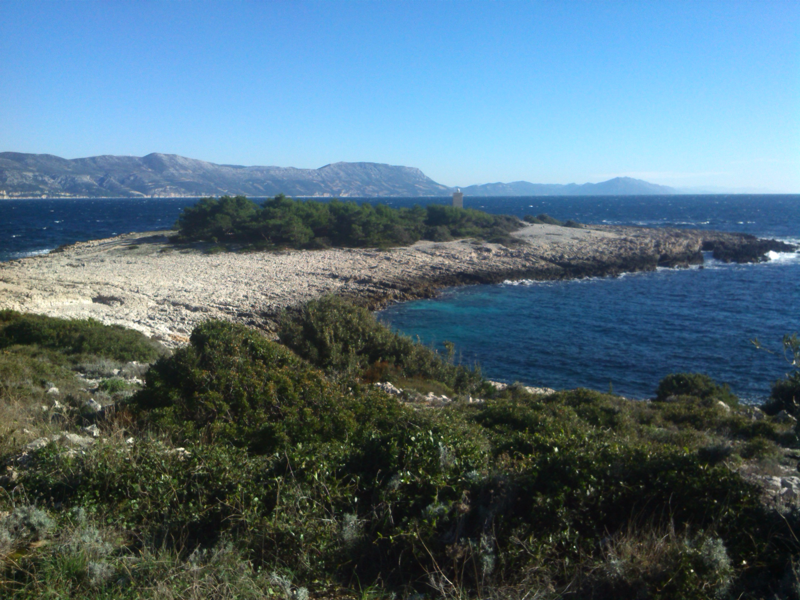 Cape Ražnjić